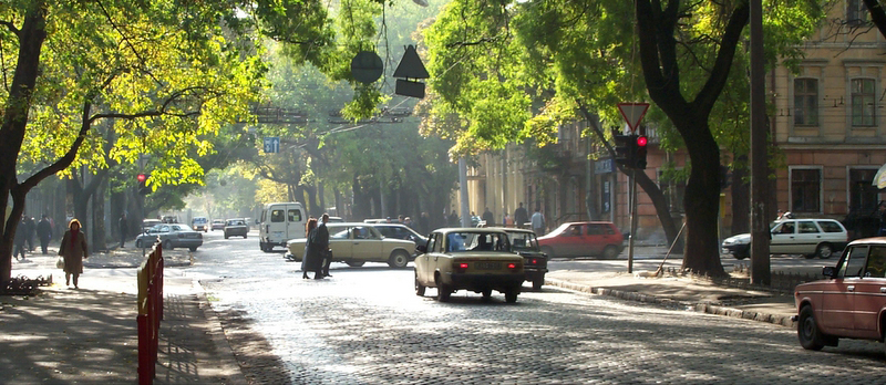 The crossing of Lva Tolstogo Street with Novoselskoho Street in Odessa, Ukraine.